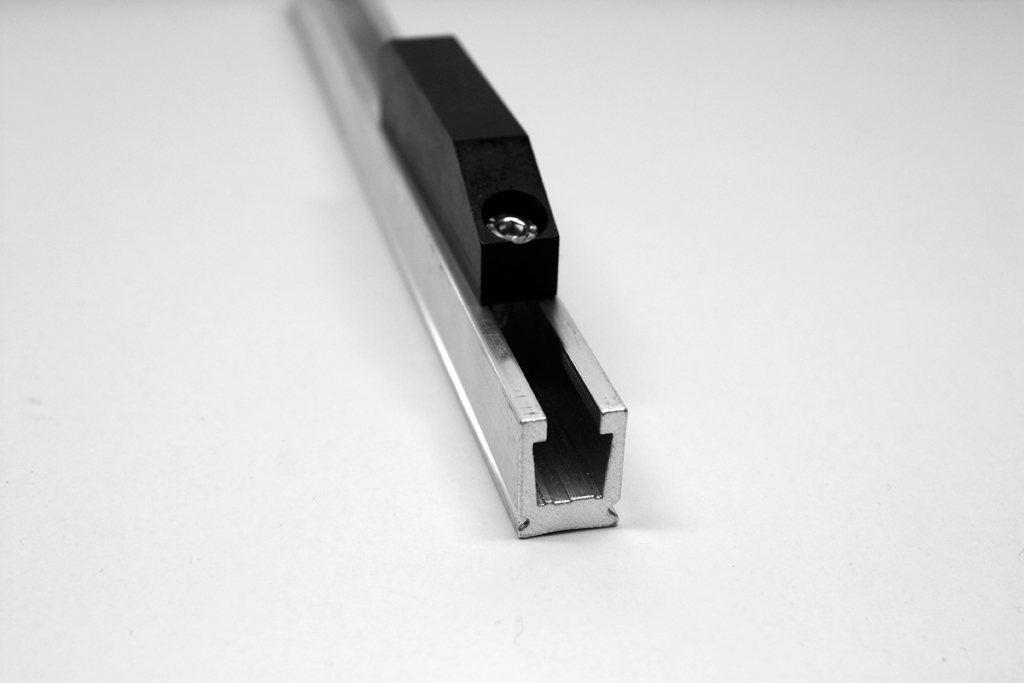 This photo shows a slot rail with the suitable cam.